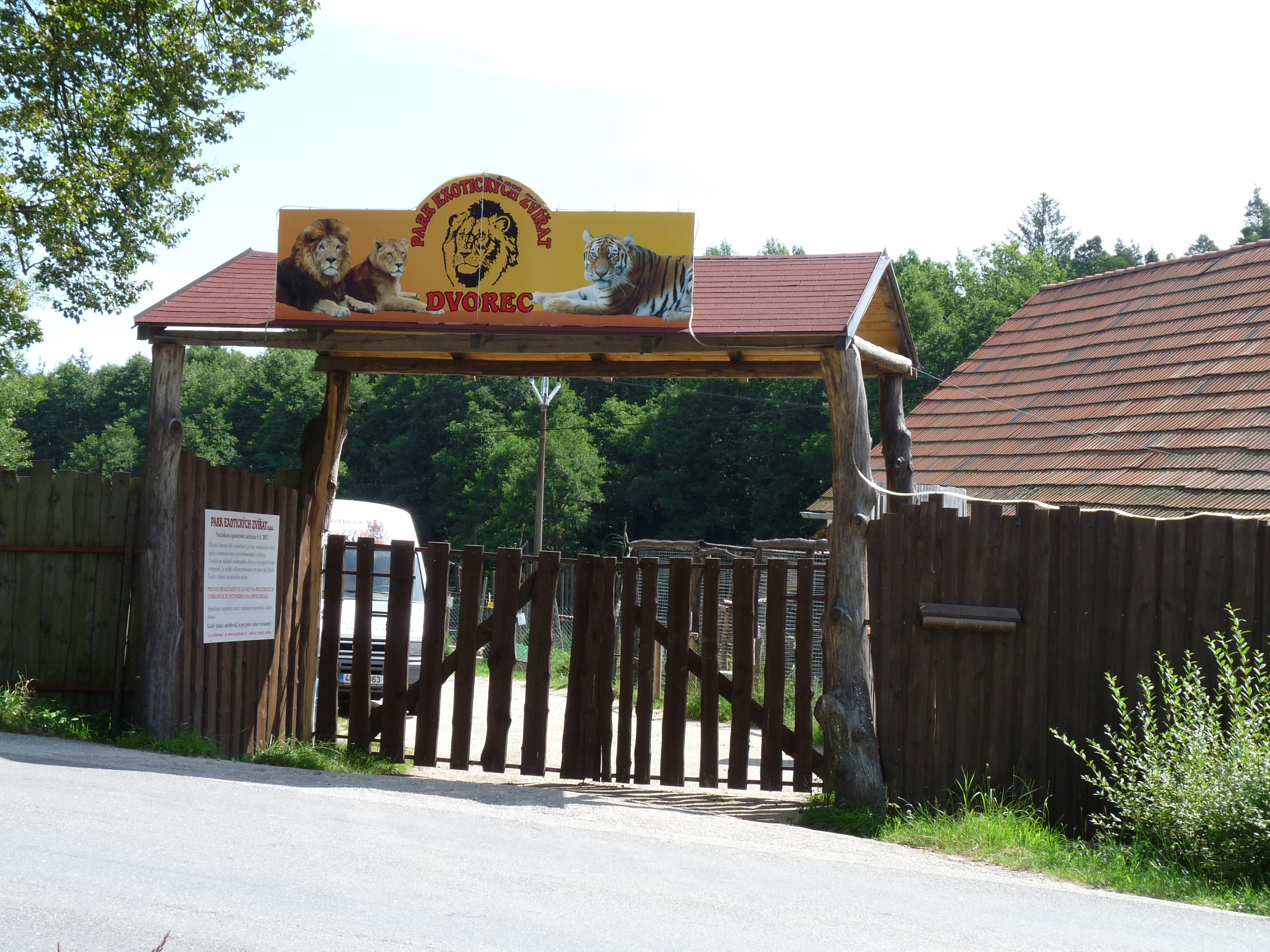 Entrance gate at Exotic Animals Park, Dvorec u Borovan, Czech Republic